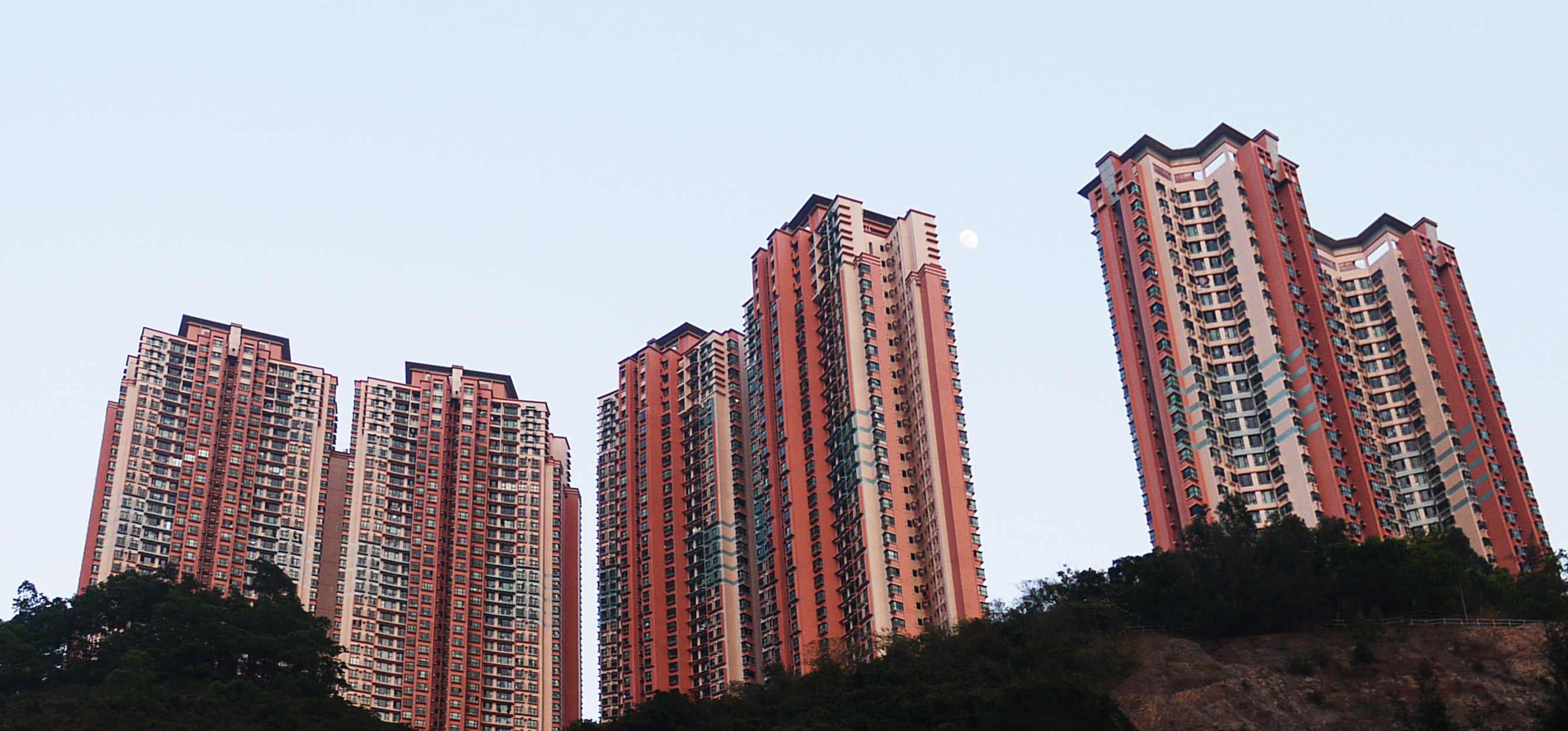 HIGHLAND PARK 3